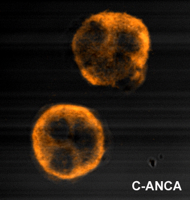 Immunofluorescence pattern produced by binding of ANCA from a patient with Wegener's Granulomatosis to ethanol-fixed neutrophils